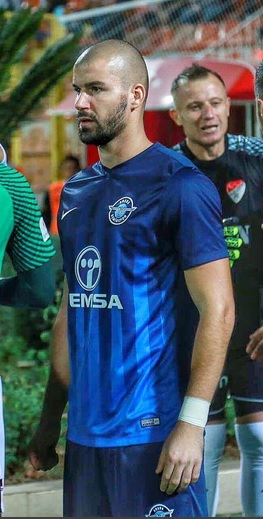 standing before game